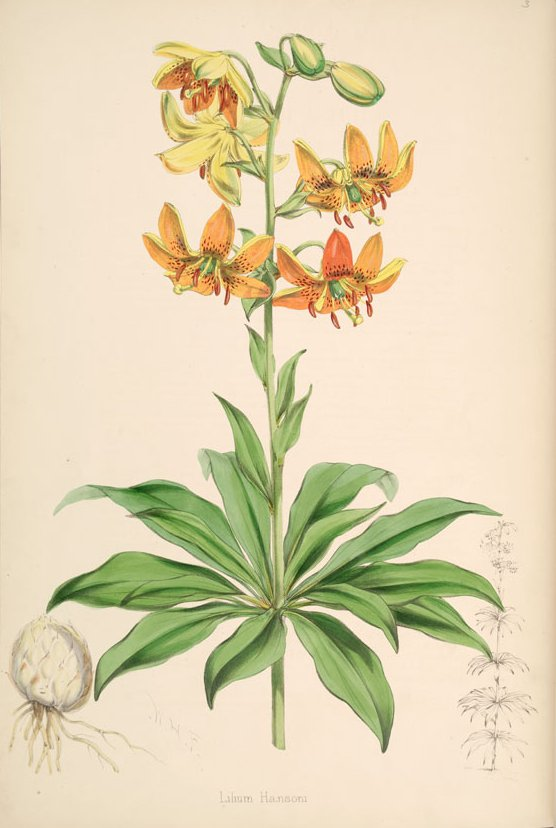 Lilium hansonii